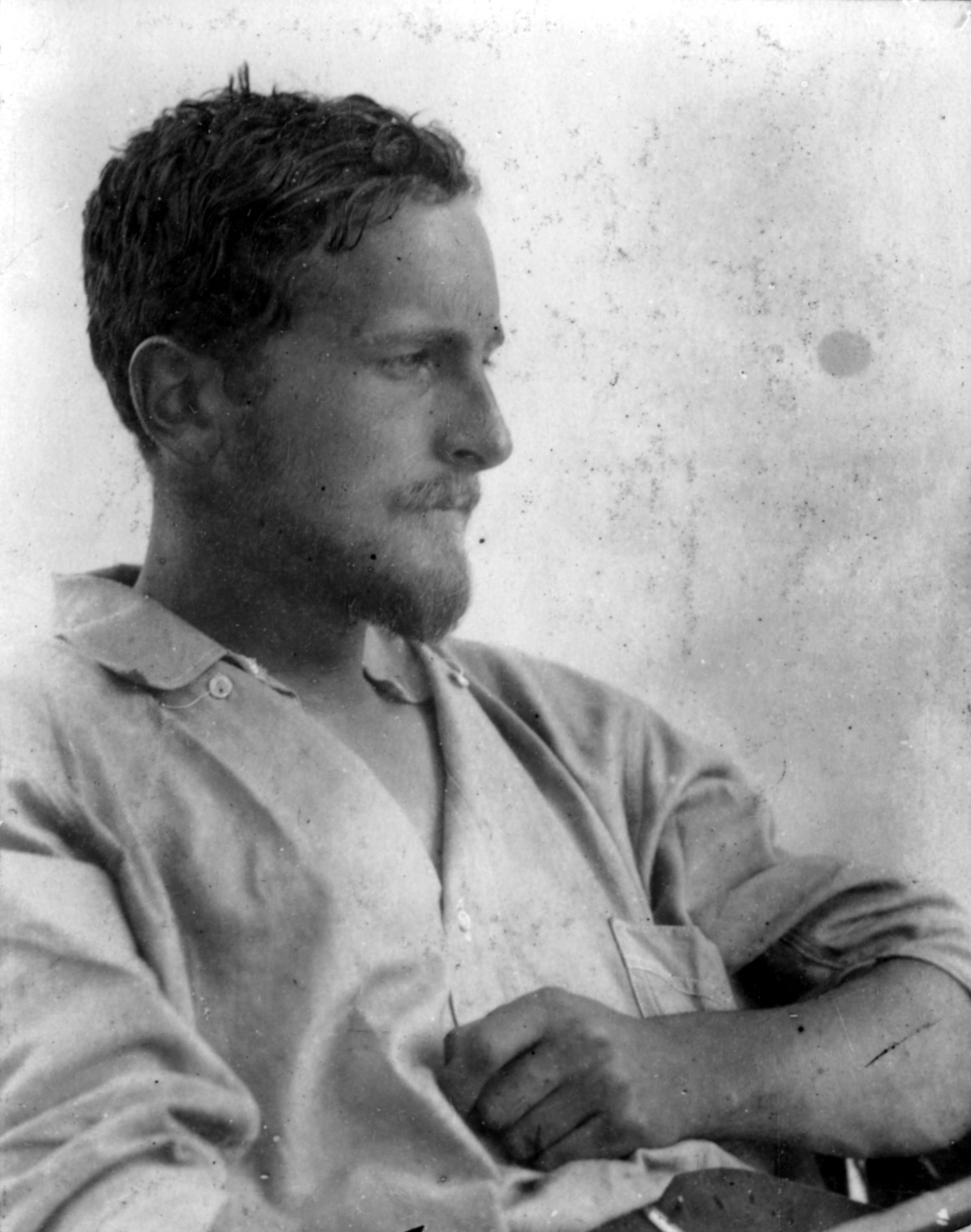 Elliot Lovegood Grant Watson (1885-1970), Photographer unknown, Perth 1910; this copy used by permission of the estate of E.L. Grant Watson, Wales.